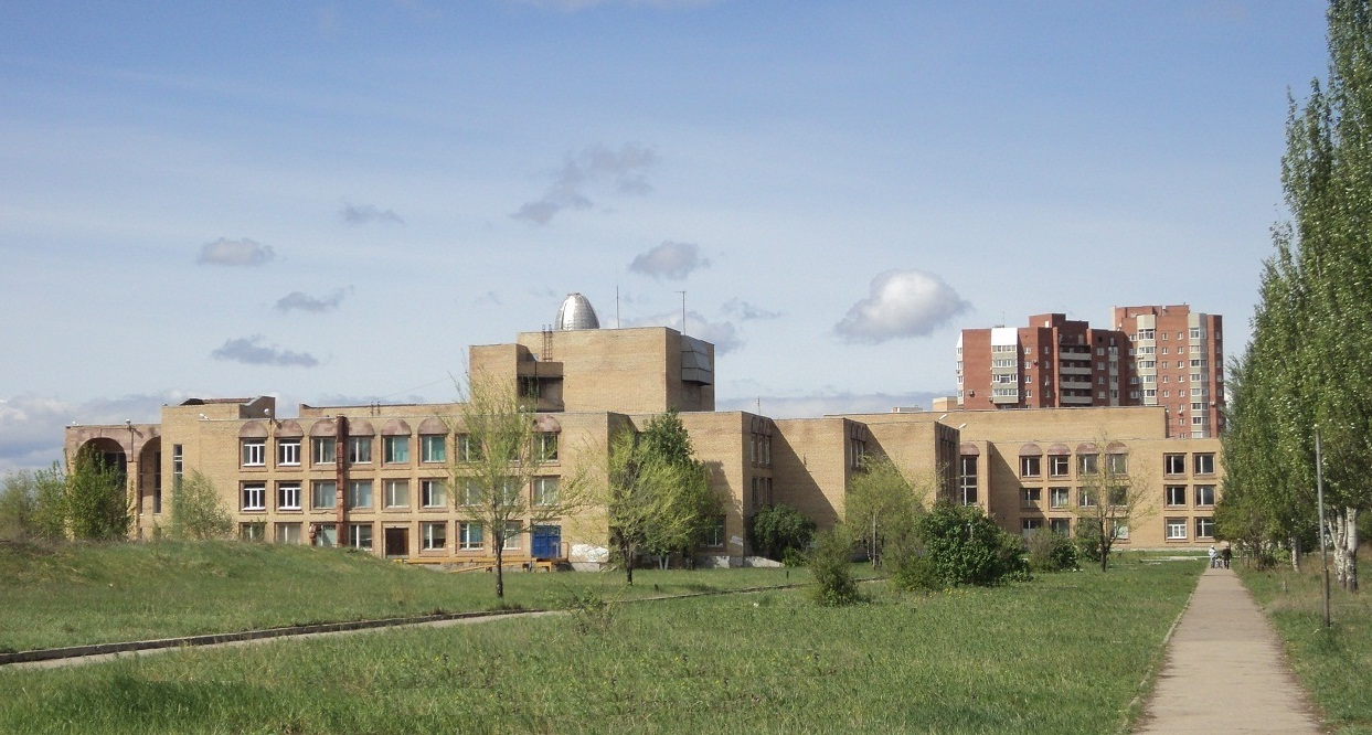 "Palace Of Pioneers. City of Togliatti. (Soviet architecture). After the 1991 takeover and ban the Communist Party of the Soviet Union "," pioneers organization, dissolved! Its assets were confiscated and passed under the control of local authorities. Partially operate under the new name "Palace of children and youth creativity". Installed rooftop telescope